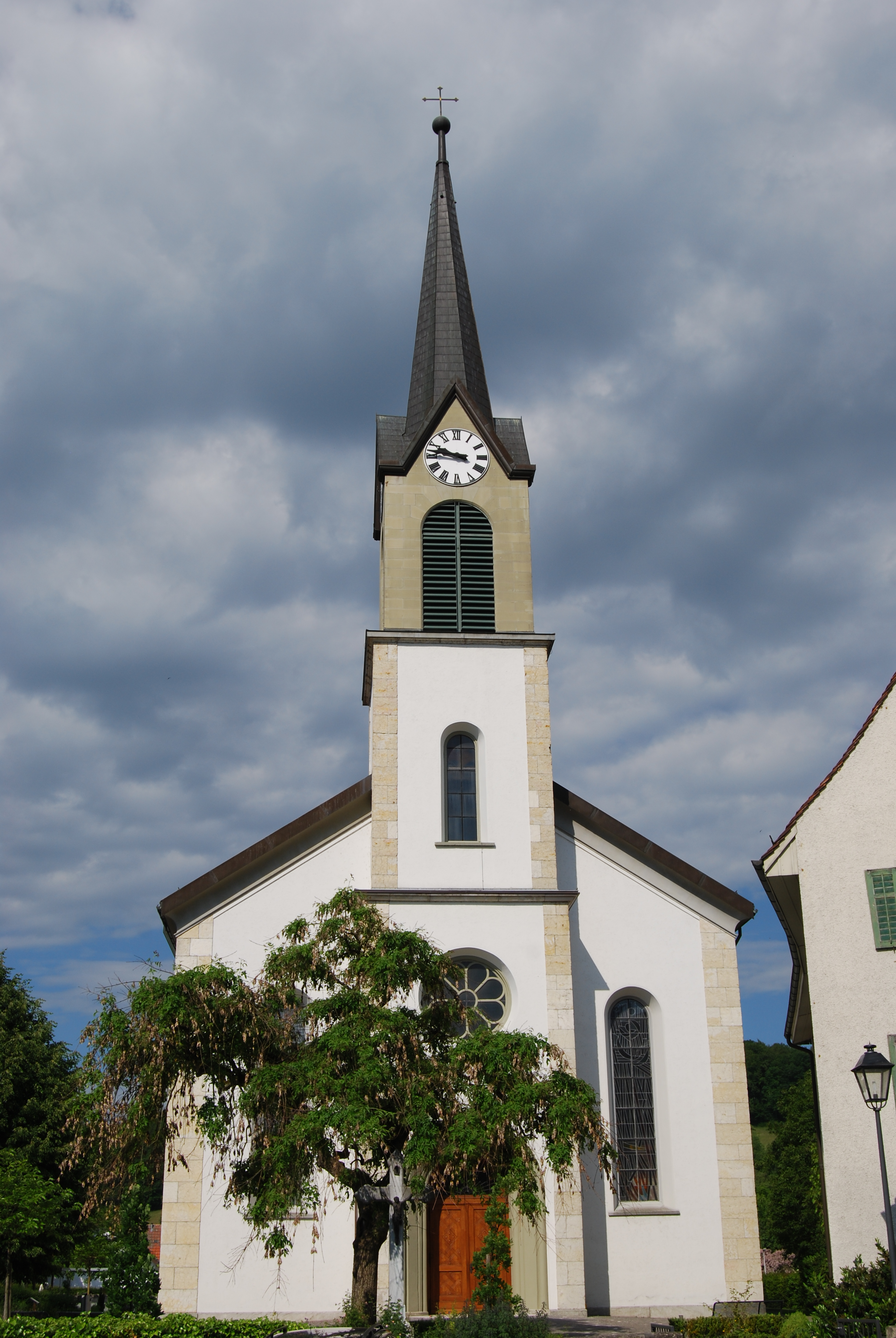 Catholic church of Erlinsbach, canton of Solothurn, Switzerland